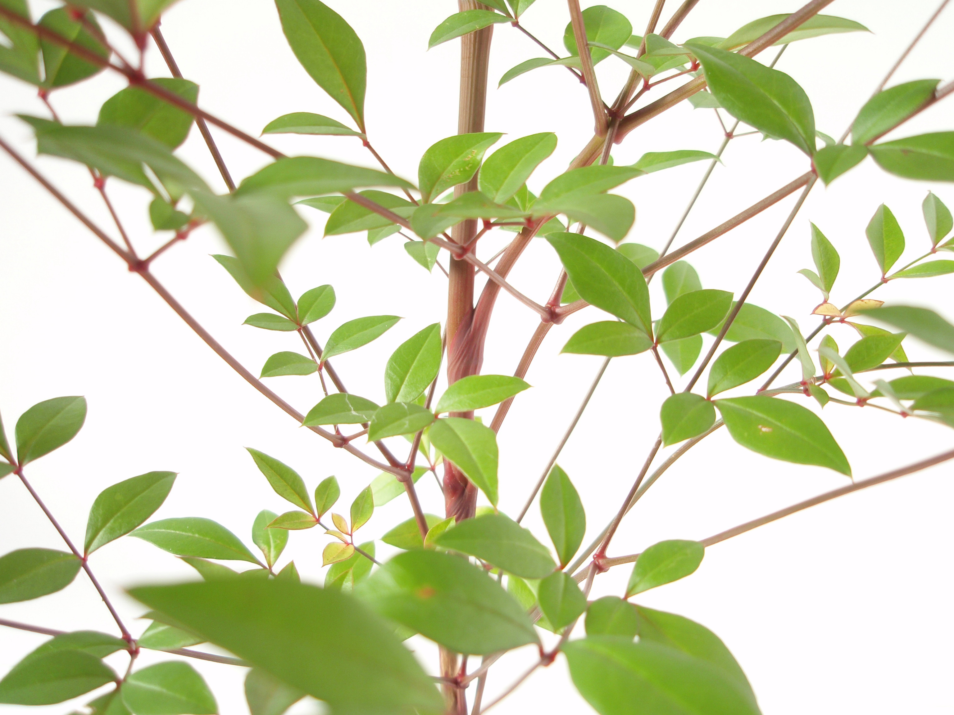 Nandina domestica